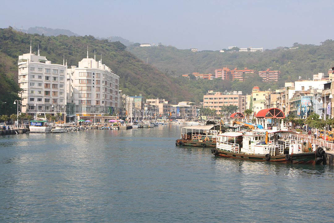 Hamaseng, Gushan District, Kaohsiung City, Taiwan